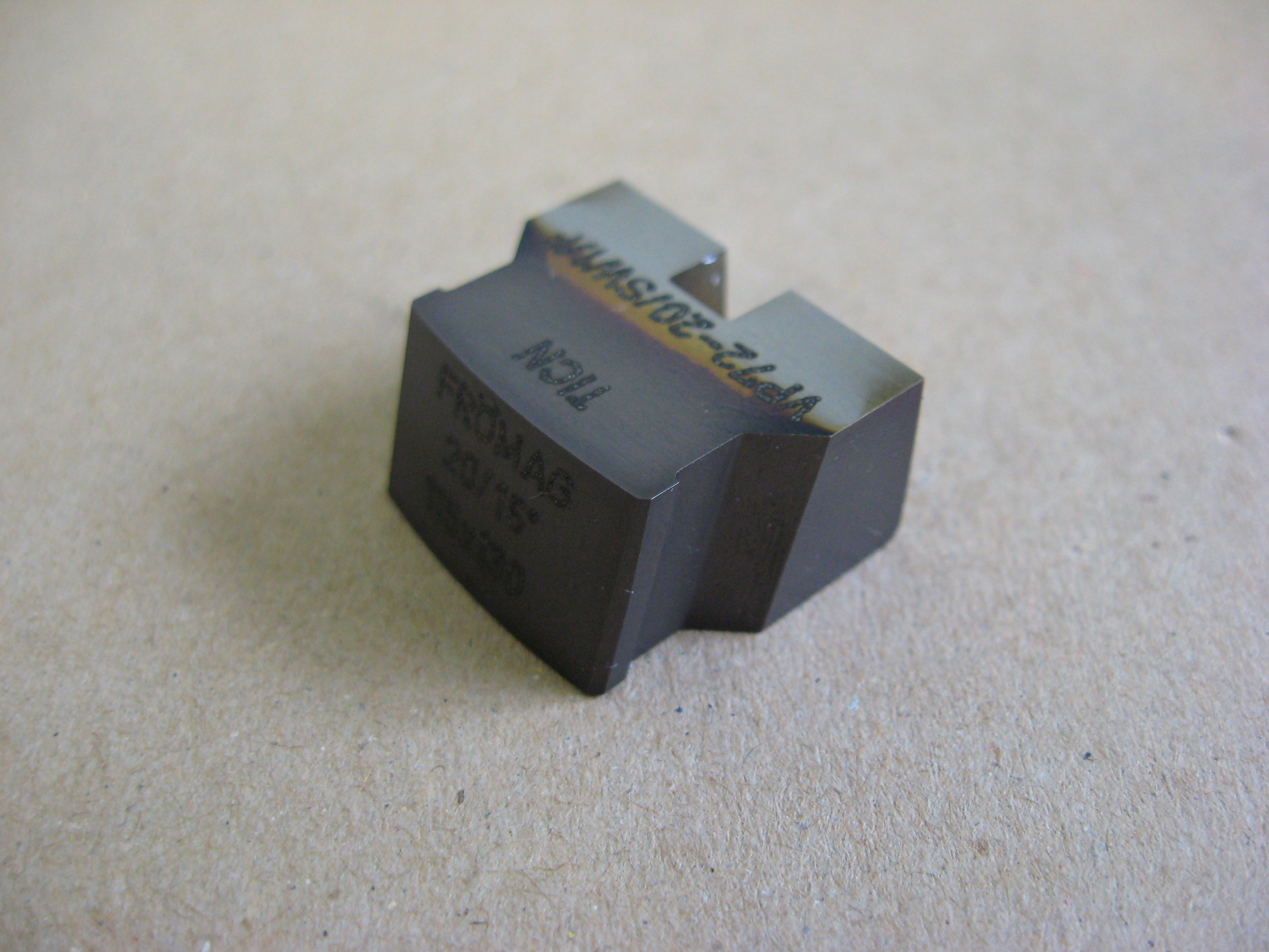 Cutting tool for internal straight sided spline